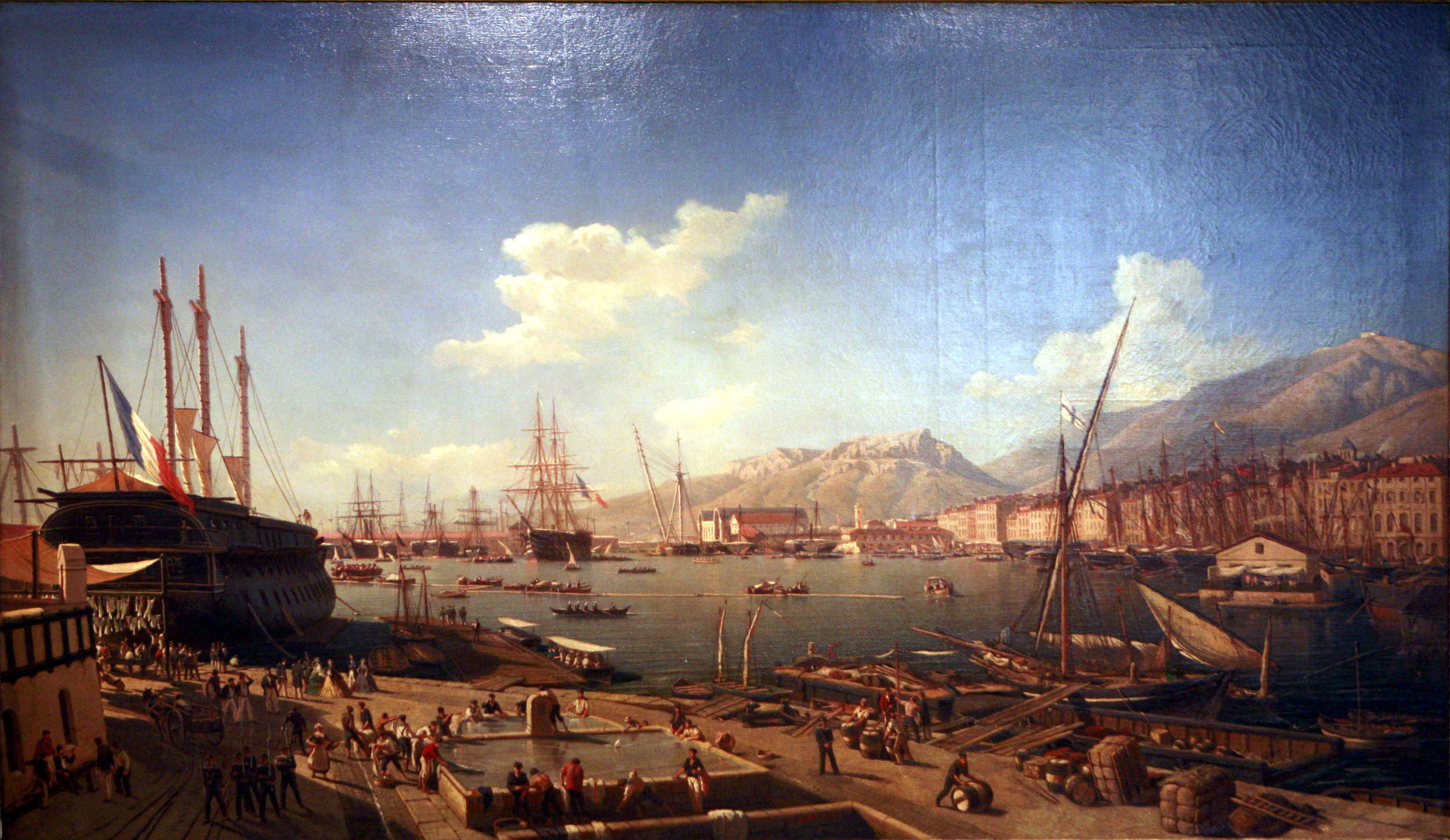 Toulon harbour Oil on canvas. On display at Toulon naval museum. Access number 9 OA 10